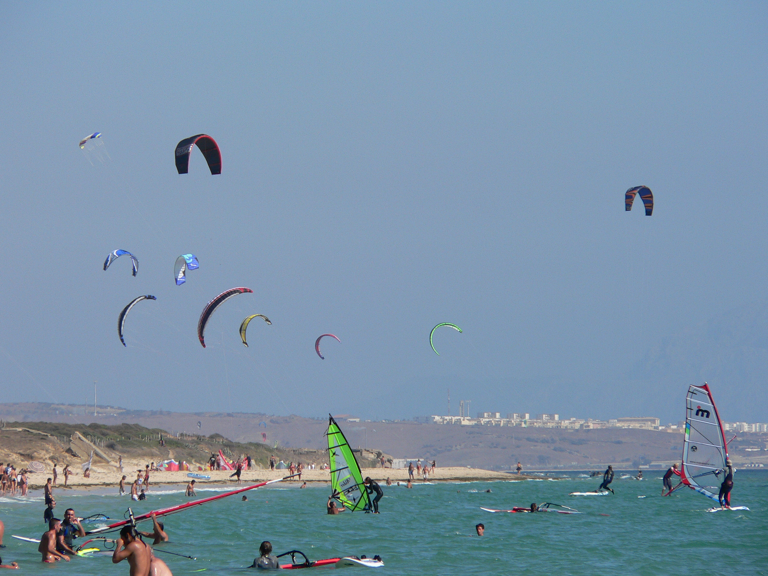 Description: Windsurf and kitesurf Subject: Windsurfing and kitesurfing Beach : Punta Paloma City : Tarifa Country : Spain Photographer: © Manuel González Olaechea y Franco Shot date : August, 26th, 2005